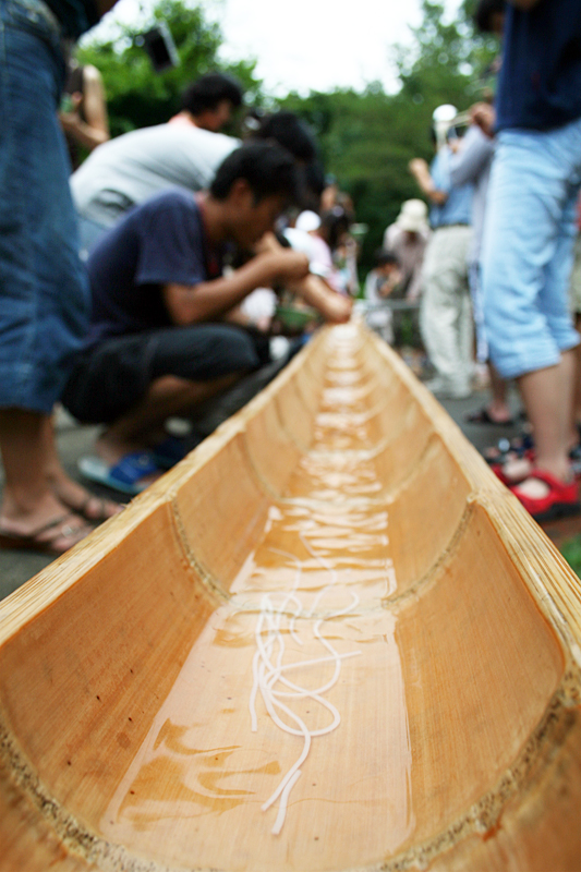 In the event in the region where I live.Nagashi-Somen (流しそうめん)